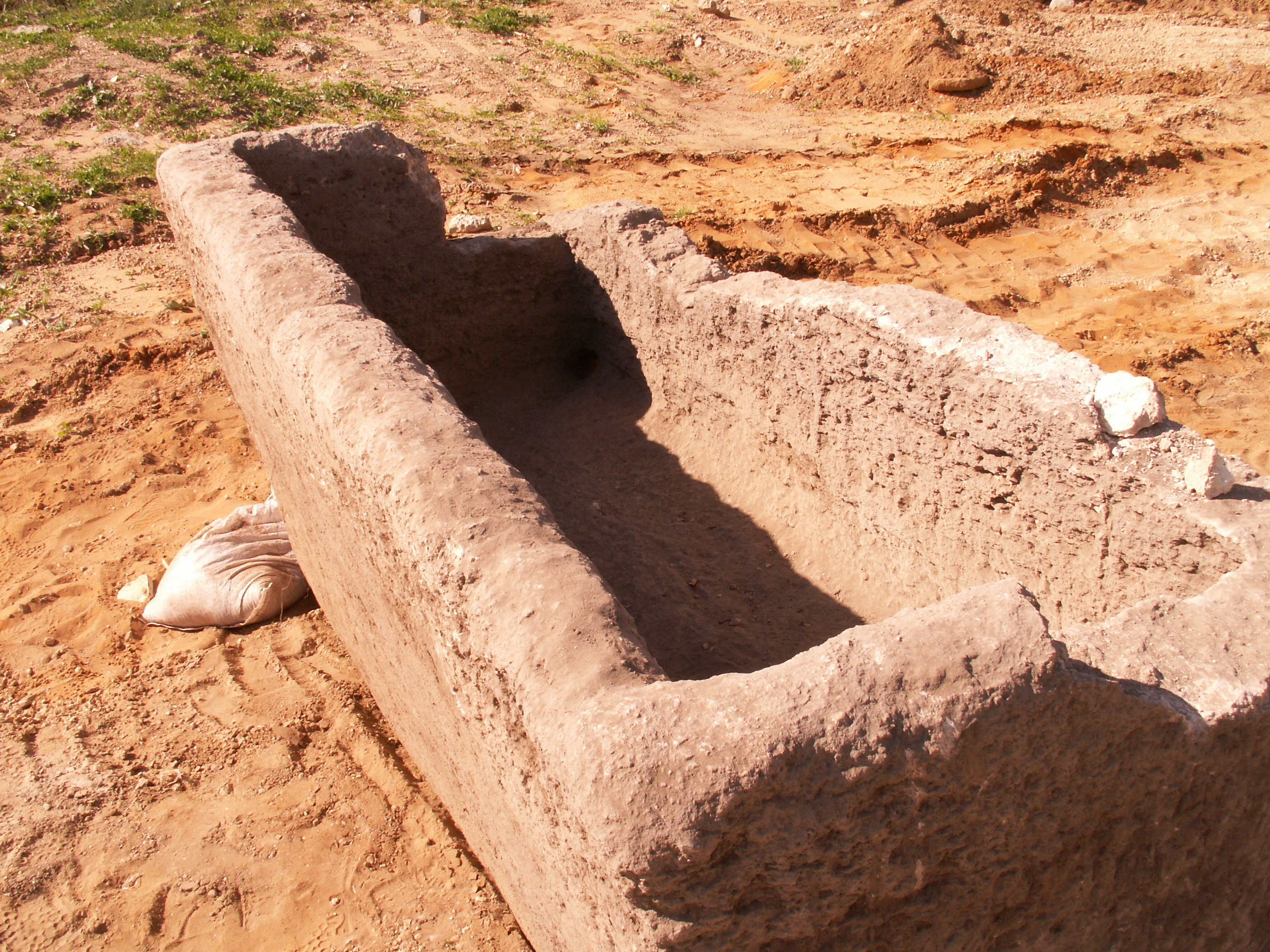 Mlavs farm site located in Petah Tikva. The bottom of the sarcophagus (coffin) has gravel stone used as a liquid collection basin, in which a hole is drilled to collect fluid.